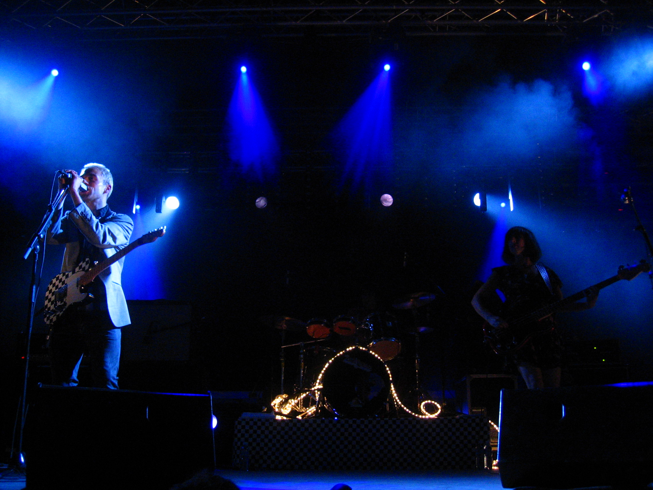 Zoot Woman performing at For Noise 2008